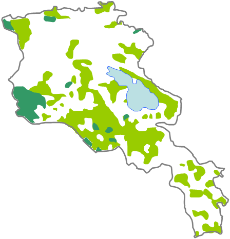 Muslims (light green - shia muslims, dark green - sunni muslims) in modern borders of Armenia, 1886-1890